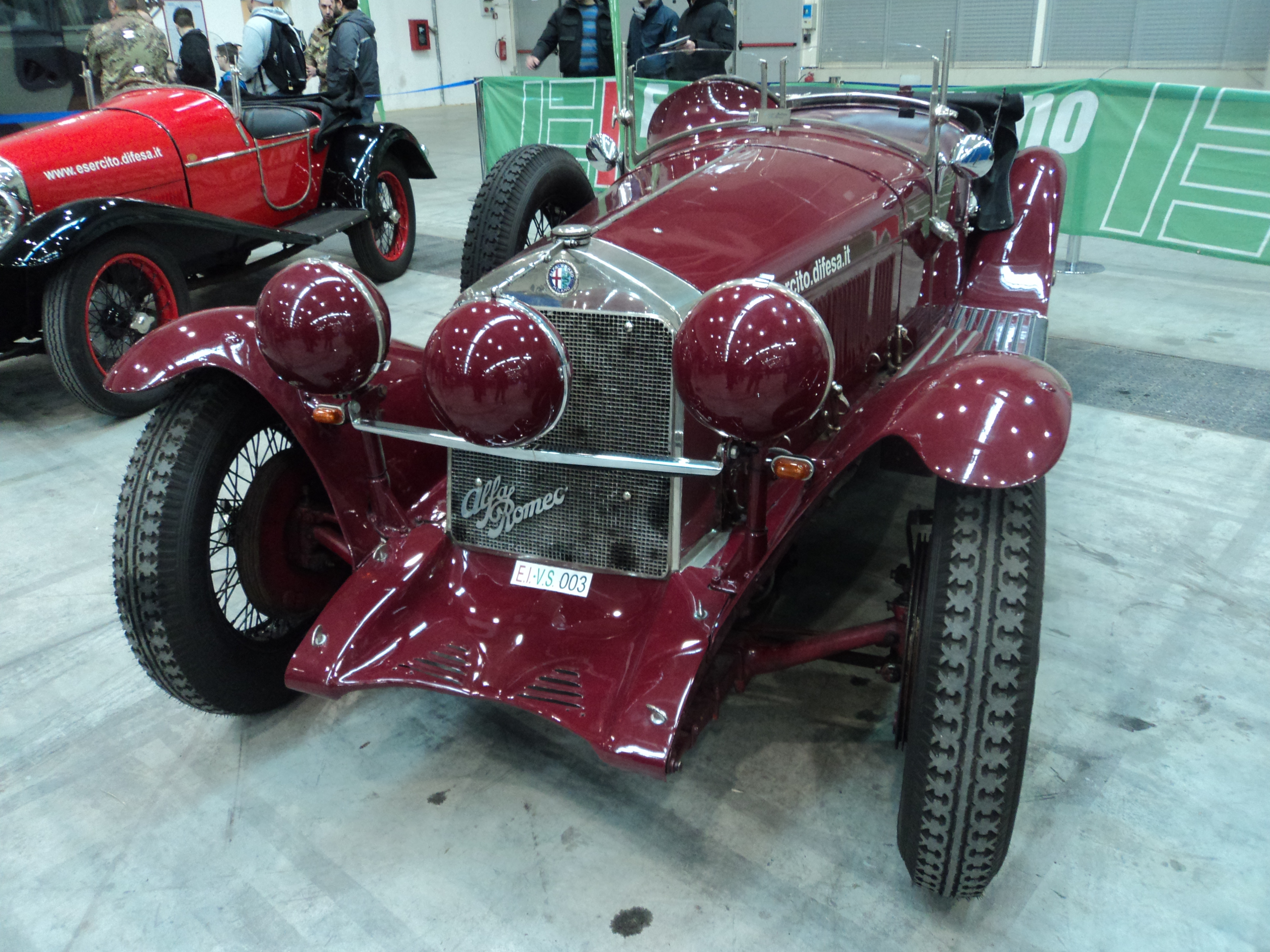 Rome Tuning Show